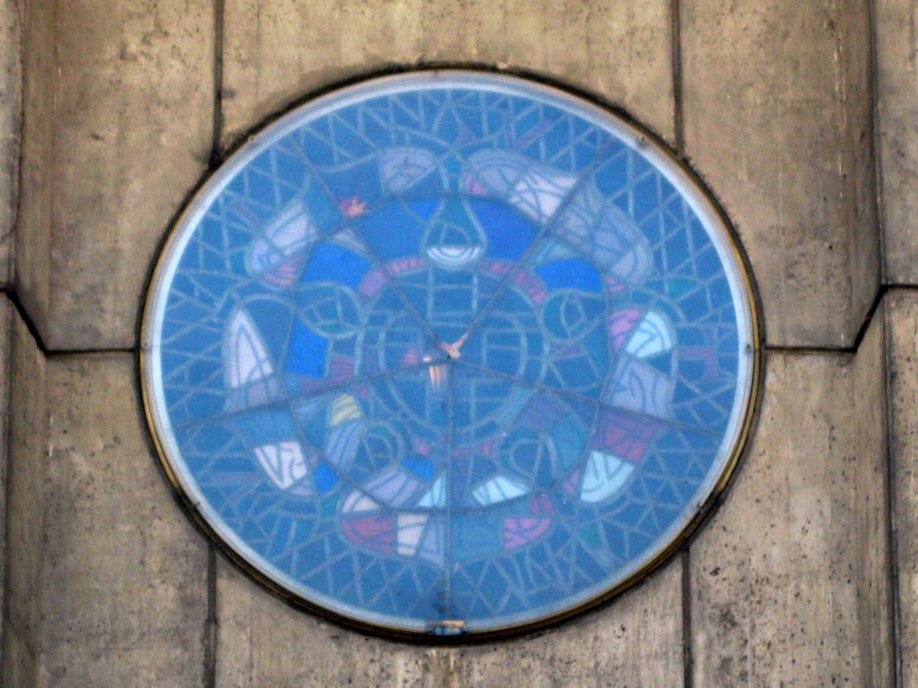 Round window above the middle portal of Kaiser-Friedrich-Gedächtniskirche (Emperor Friedrich Memorial Church) in Berlin-Hansaviertel, showing a Luther rose; designed by Ludwig Peter Kowalski (1957); outside view.